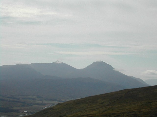 Ben More & Stob Binnein. Ben More (right) & Stob Binnein. This is the view from the summit of Sron a Chlachain.